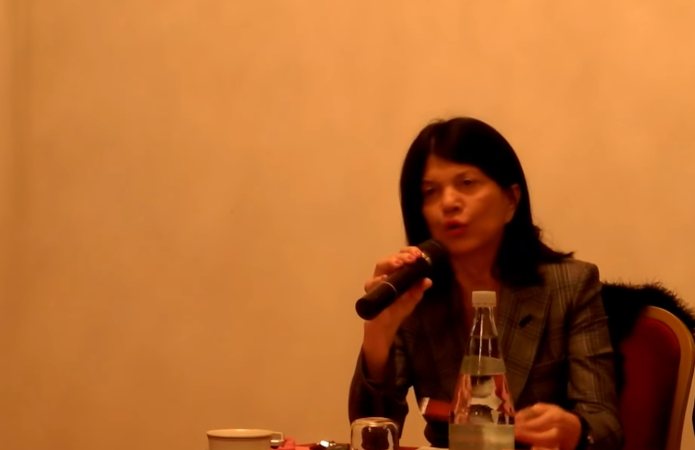 stefania nobile